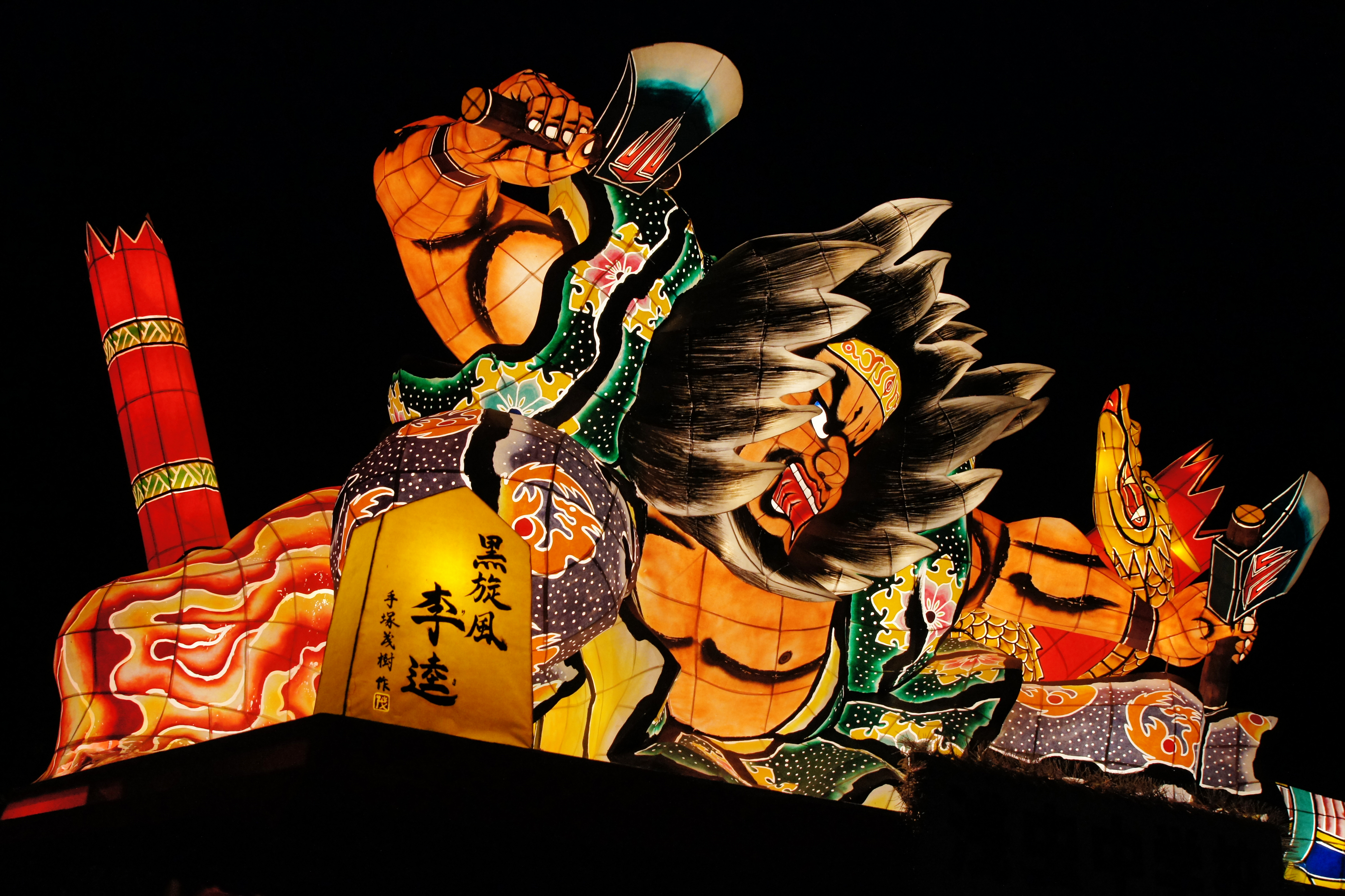 Asamushi Onsen Nebuta Festival at Asamushi Onsen in Aomori, Aomori prefecture, Japan